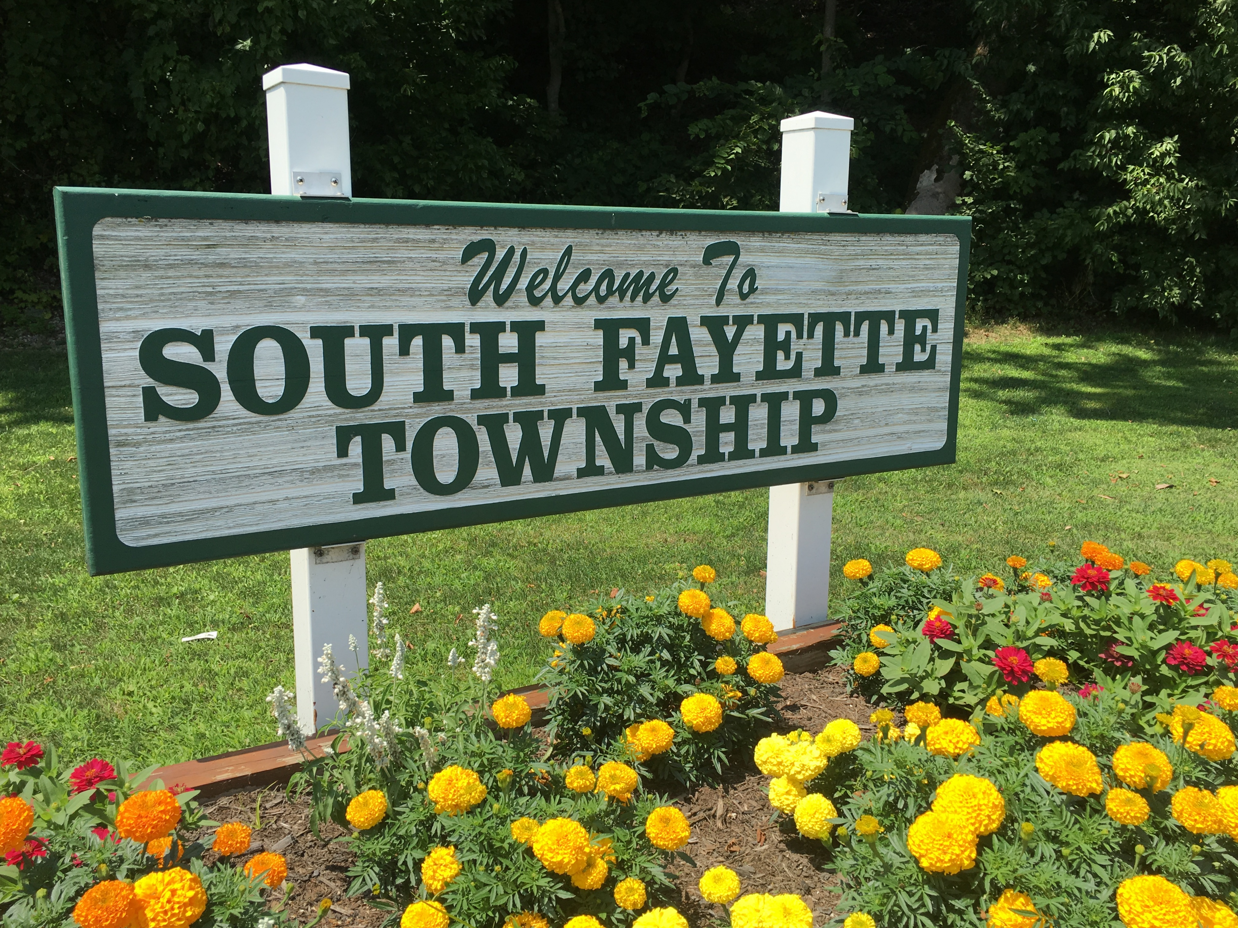 Sign welcoming visitors to South Fayette Township